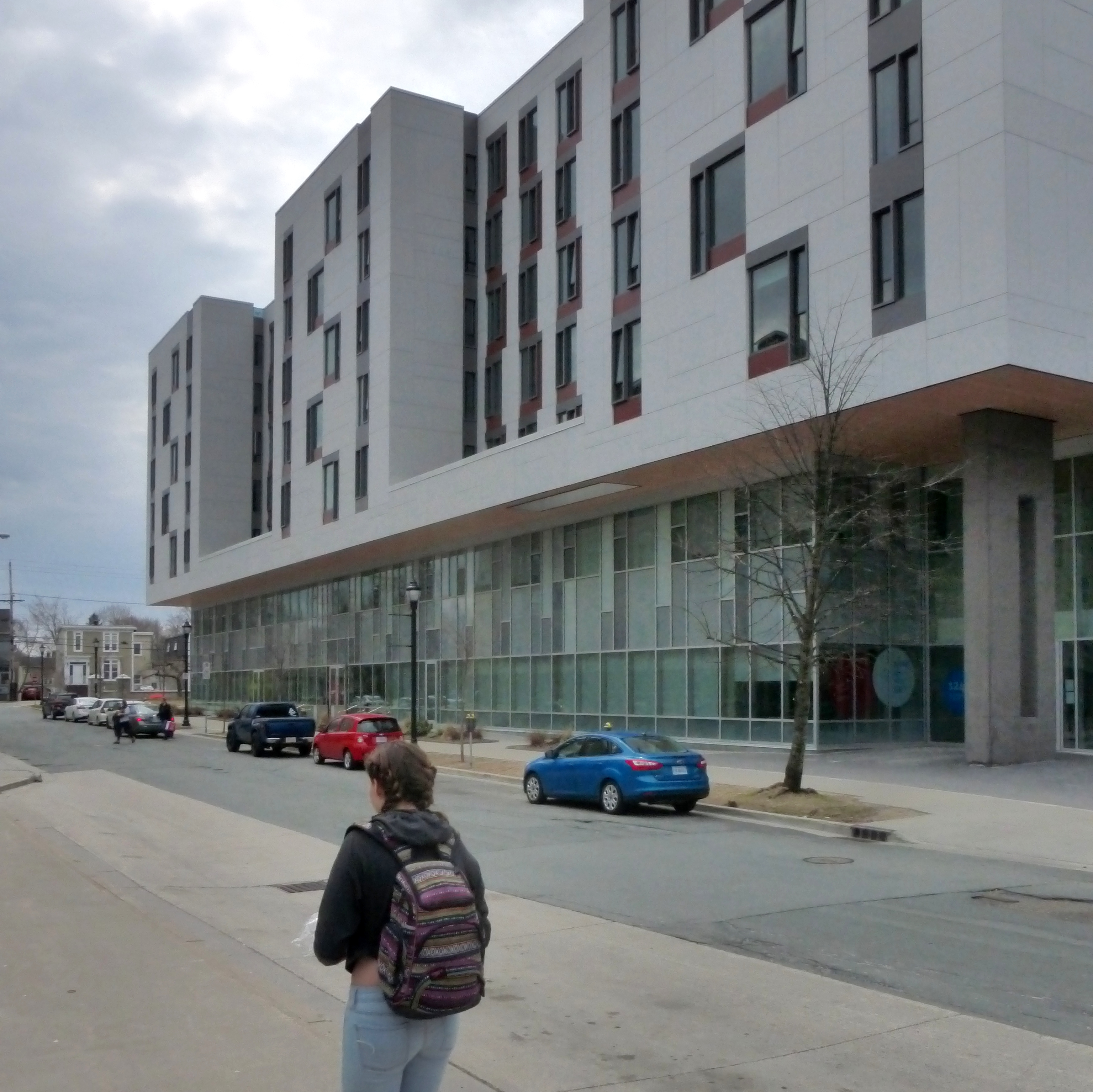 LeMarchant Place (formerly LeMarchant Mixed-Use Building), Dalhousie University. It is a targeted LEED Gold building.